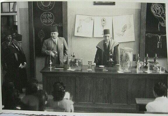 Prof. Naguib Pasha Mahfouz lecturing, with King Farouk in attendance.